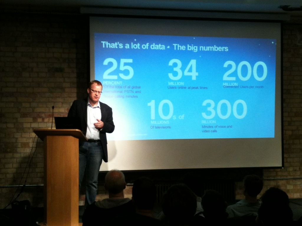 Photo of Mark Gillett presenting Skype Big numbers at London Big Data Meetup